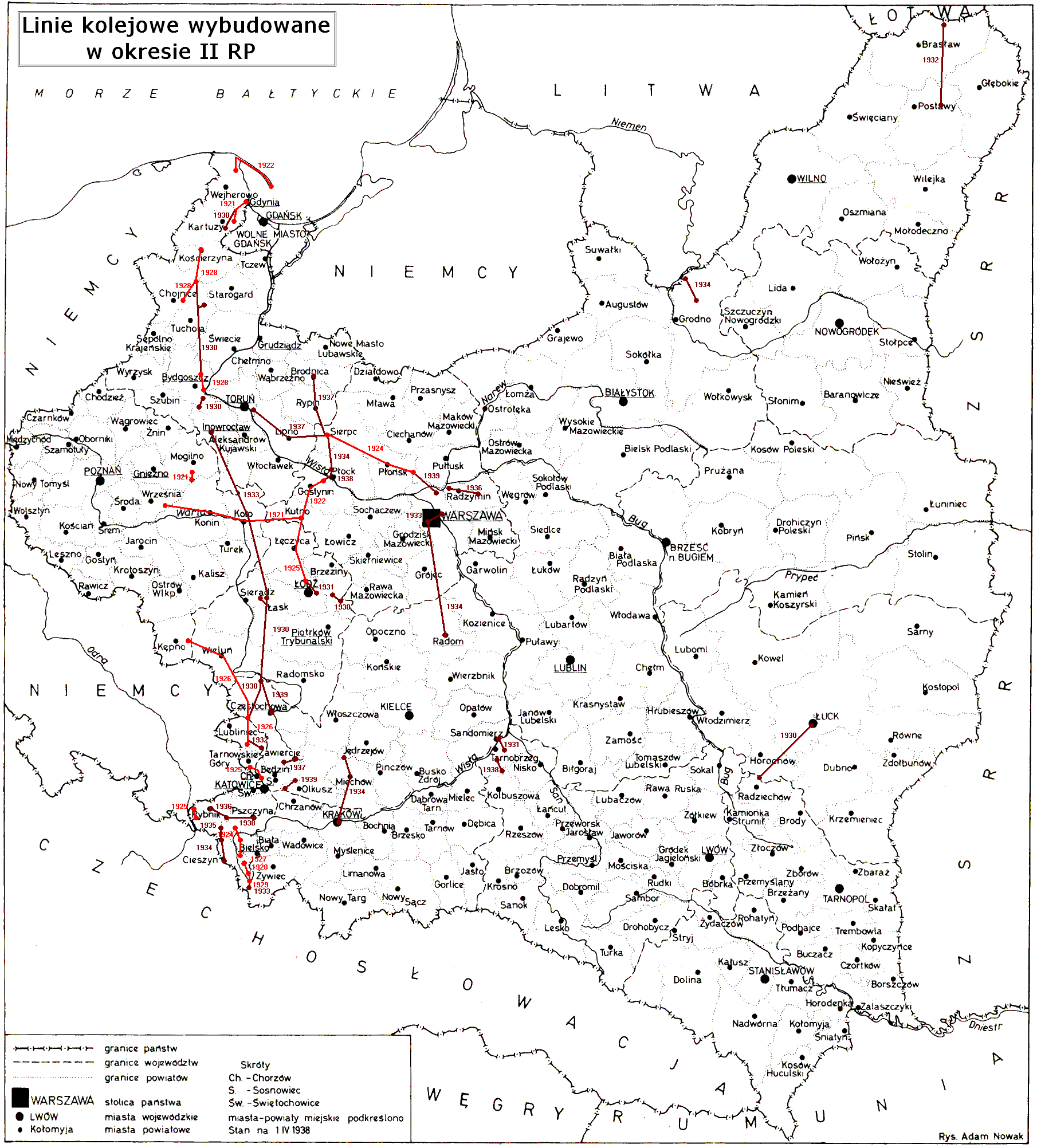 New railways built in Poland 1918-1939